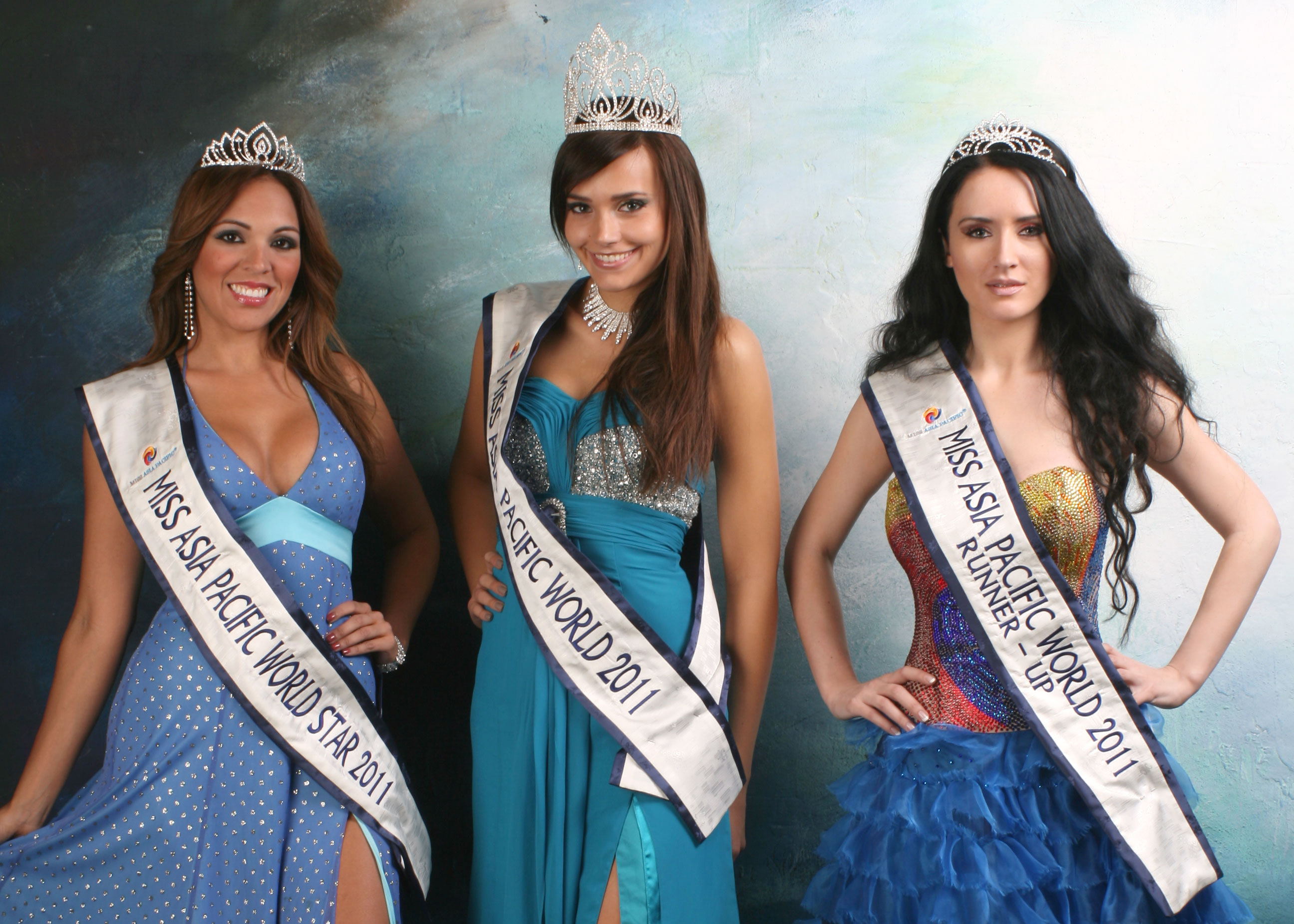 On the left Miss Asia Pacific World Star-2011 Ingrid Fernandez, in center Miss Asia Pacific World-2011 Florima Treiber, on the right Miss Asia Pacific World-2011 Runner-up Diana Starkova. Three girls signed the contracts with Elite Asia - Miss Asia Pacific World Organization and they will be back next year to Korea to give back the crowns to the new winners.